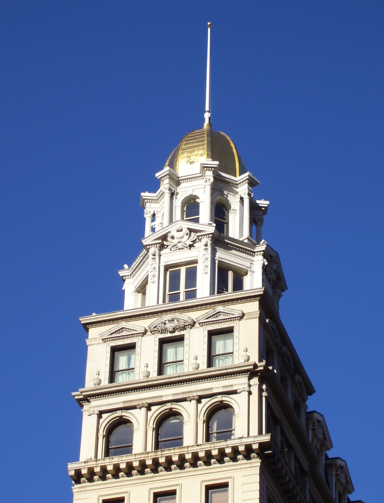 The top of the Sohmer Piano Building at 22nd Street and Fifth Avenue, in the Ladies' Mile Historic District within the Flatiron District of Manhattan, New York. The building is now residential.